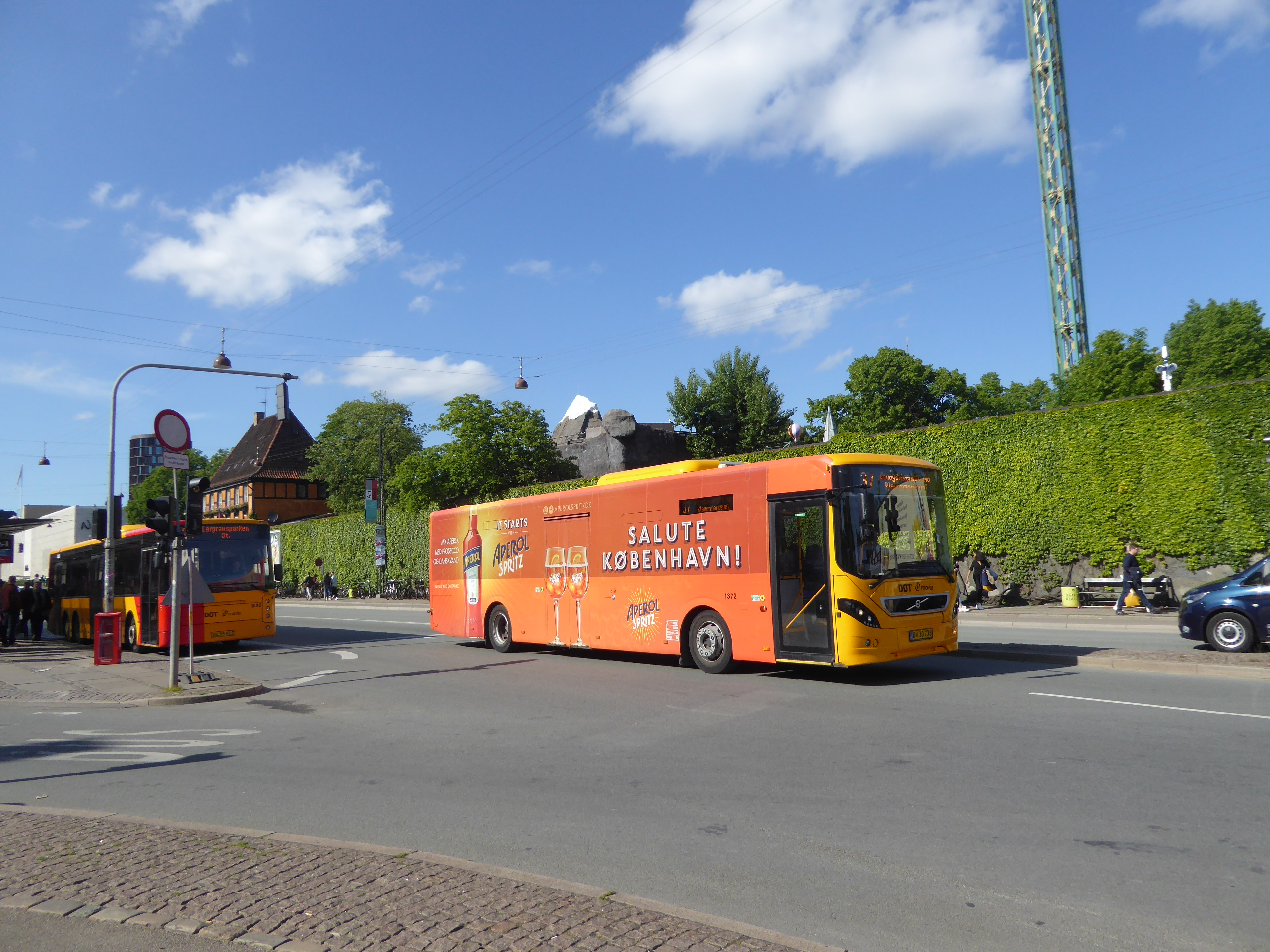 Movia bus line 37 on Bernstorffsgade in Vesterbro in Copenhagen. The advertisement is for the Italian cocktail Aperol Spritz.